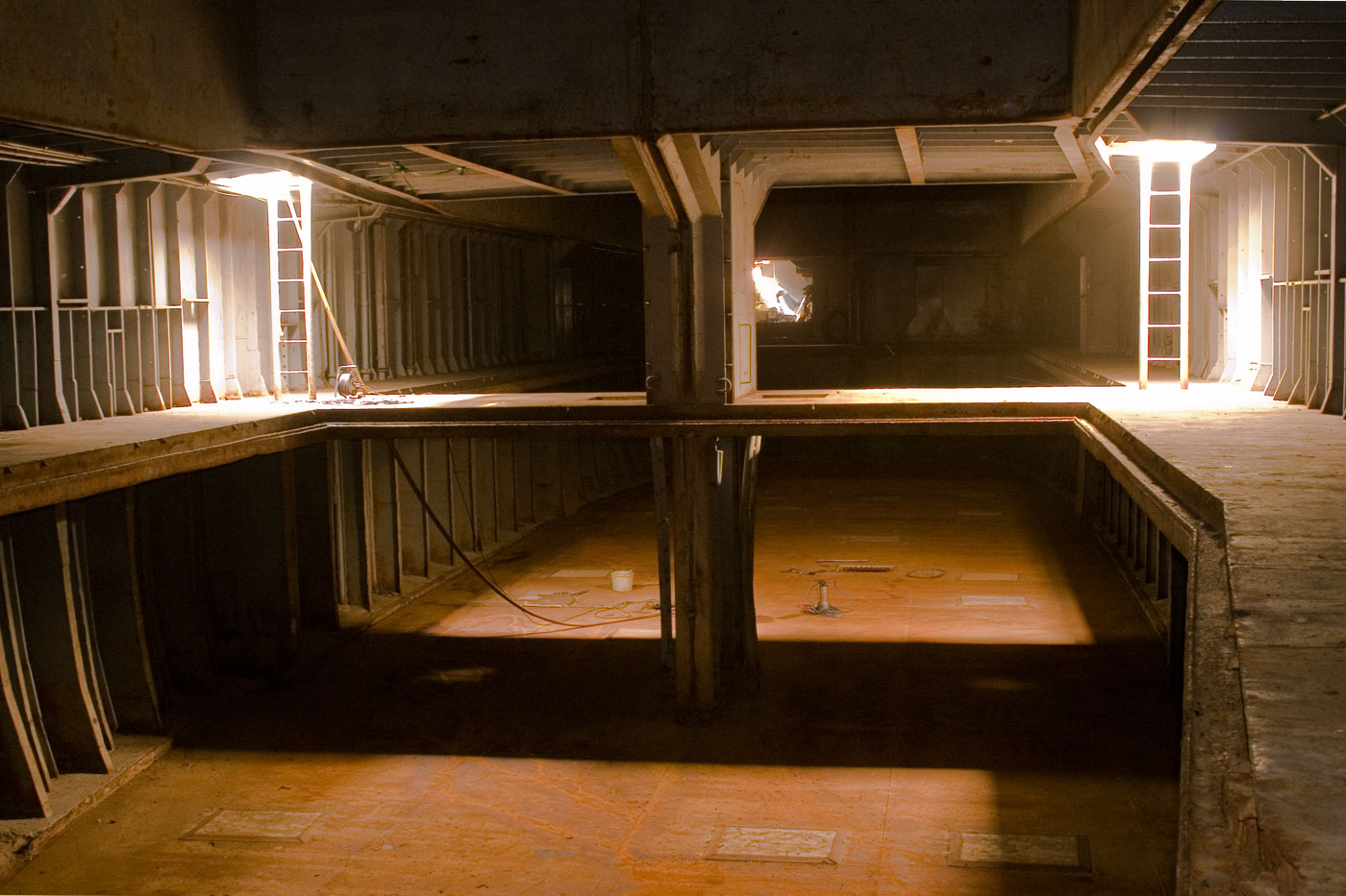 MV Rachel Corrie